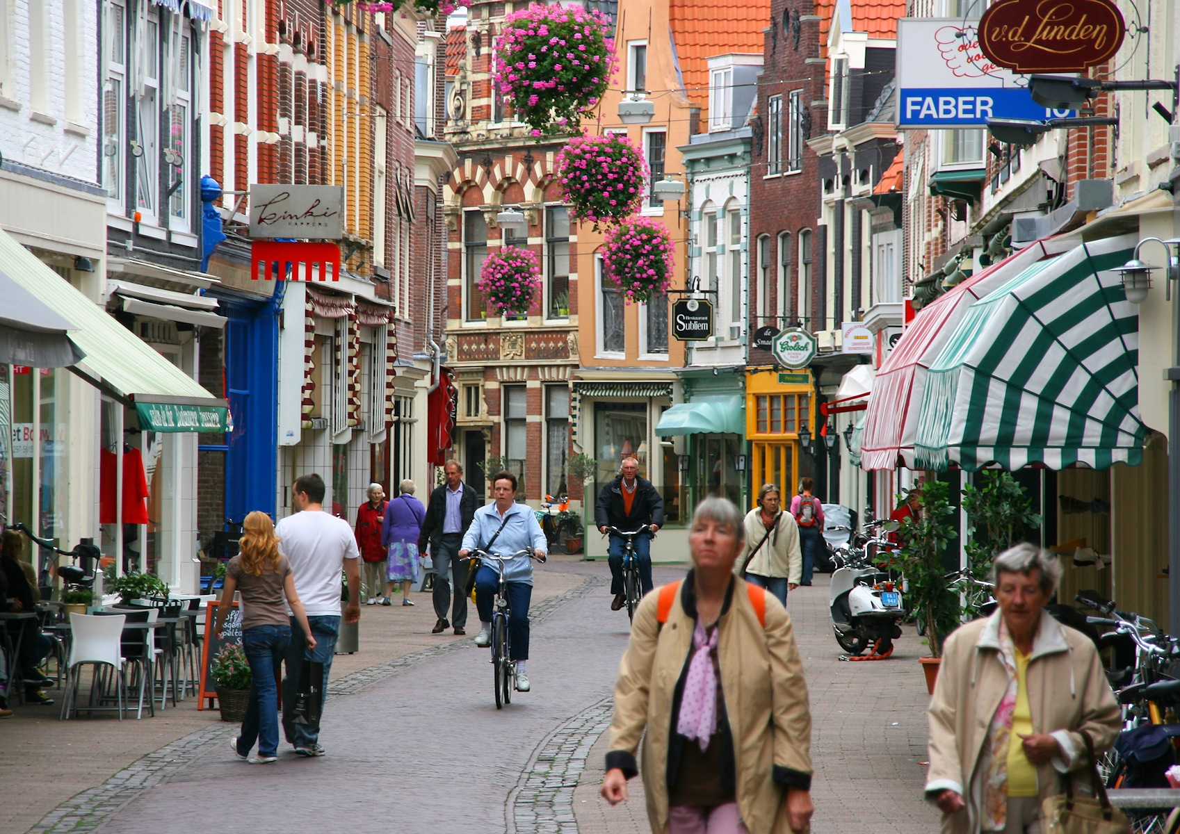 Kleine Houtstraat street in Haarlem, Netherlands.